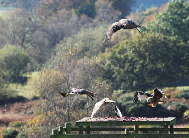 Kites at the table.